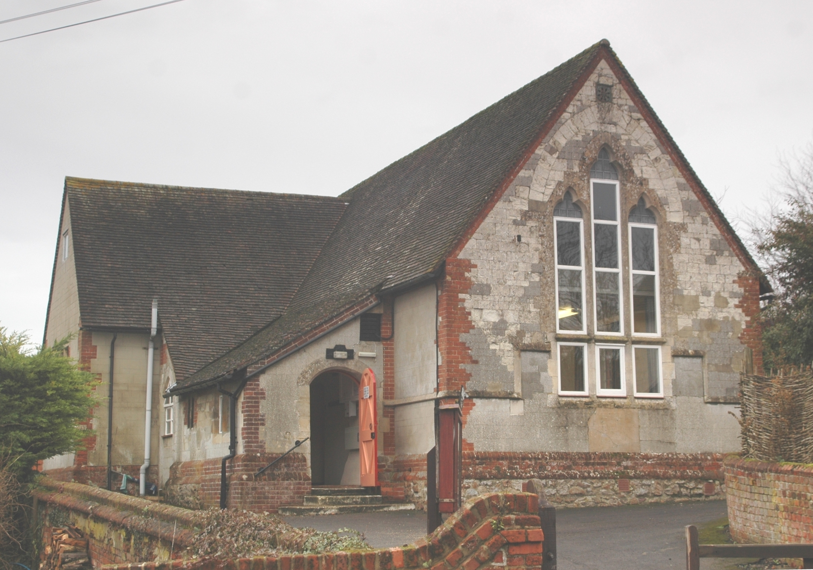 Village Hall, Ashbury, Vale of White Horse, England: formerly the village school